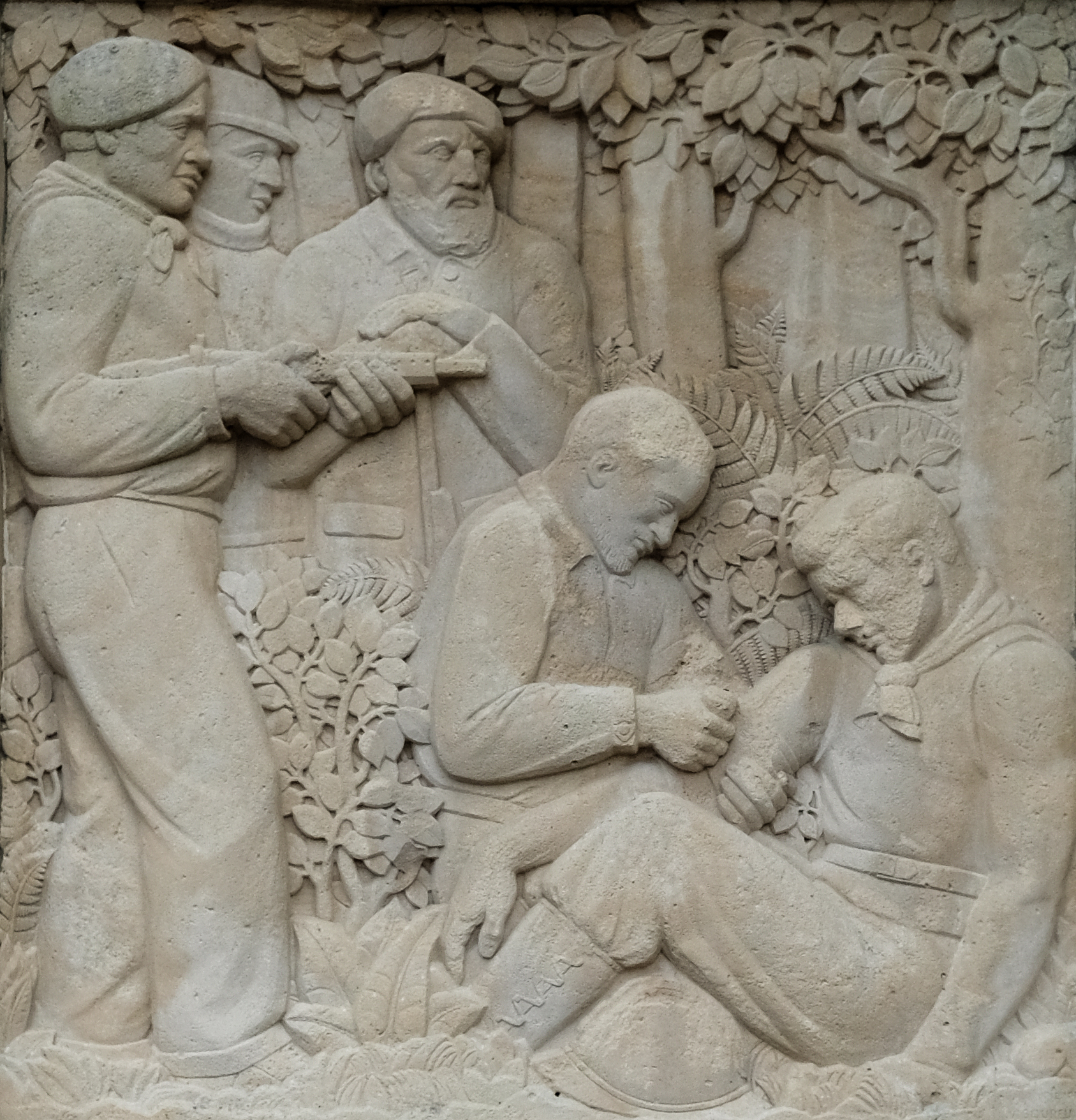 War memorial WW II, Quarré-les-Tombes, Département Yonne, Bourgogne-Franche-Comté, France This is a retouched picture, which means that it has been digitally altered from its original version. Modifications: Perspektivkorrektur.